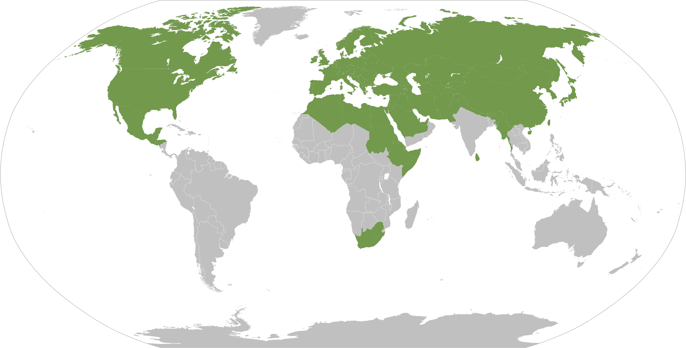 Native Allium Distribution based on: Plants of the World Online – Kew Science (